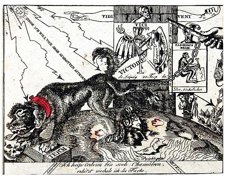 Caricature on the Berlin "Telegraph" and its editor, Carl Julius Lange